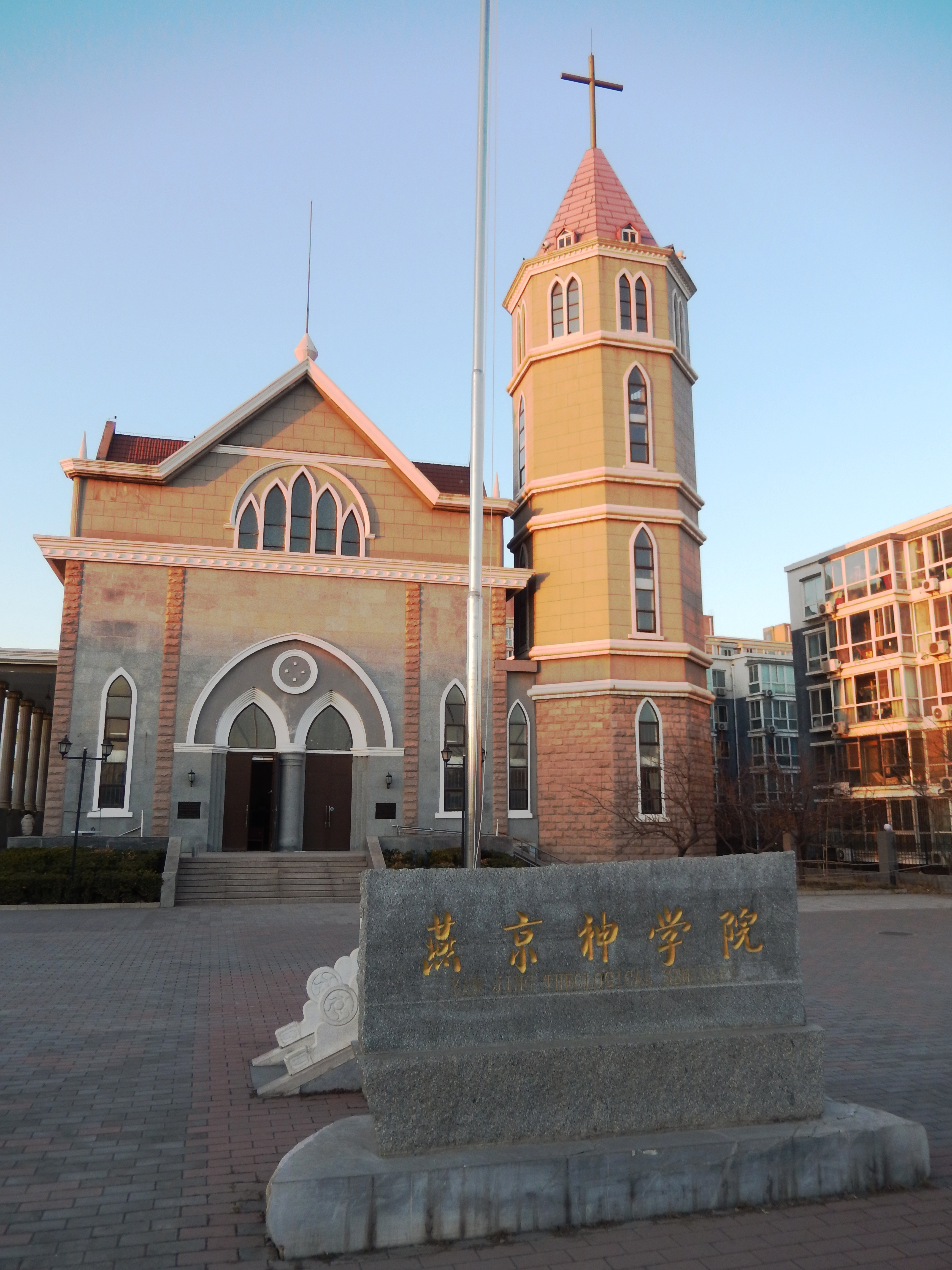 Yanjing Theological Seminary, located in Qinghe, Haidian District, Beijing, China.